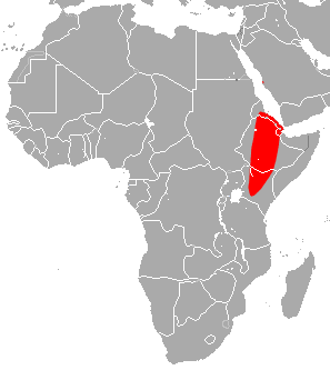 Ethiopian Large-eared Roundleaf Bat (Hipposideros megalotis) range